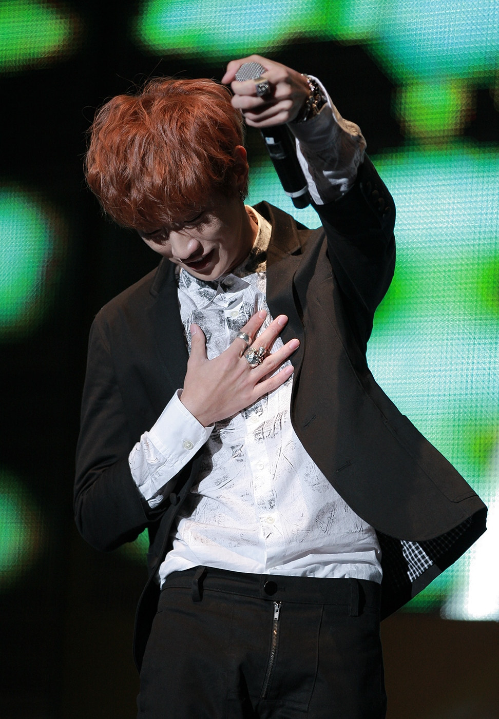 Jinyoung Jung at the Yongsan I-Park Mall em November 2, 2013.